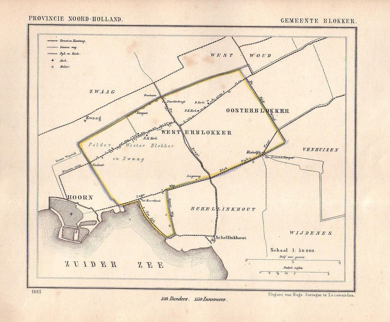 Historic map of Blokker, North Holland, the Netherlands